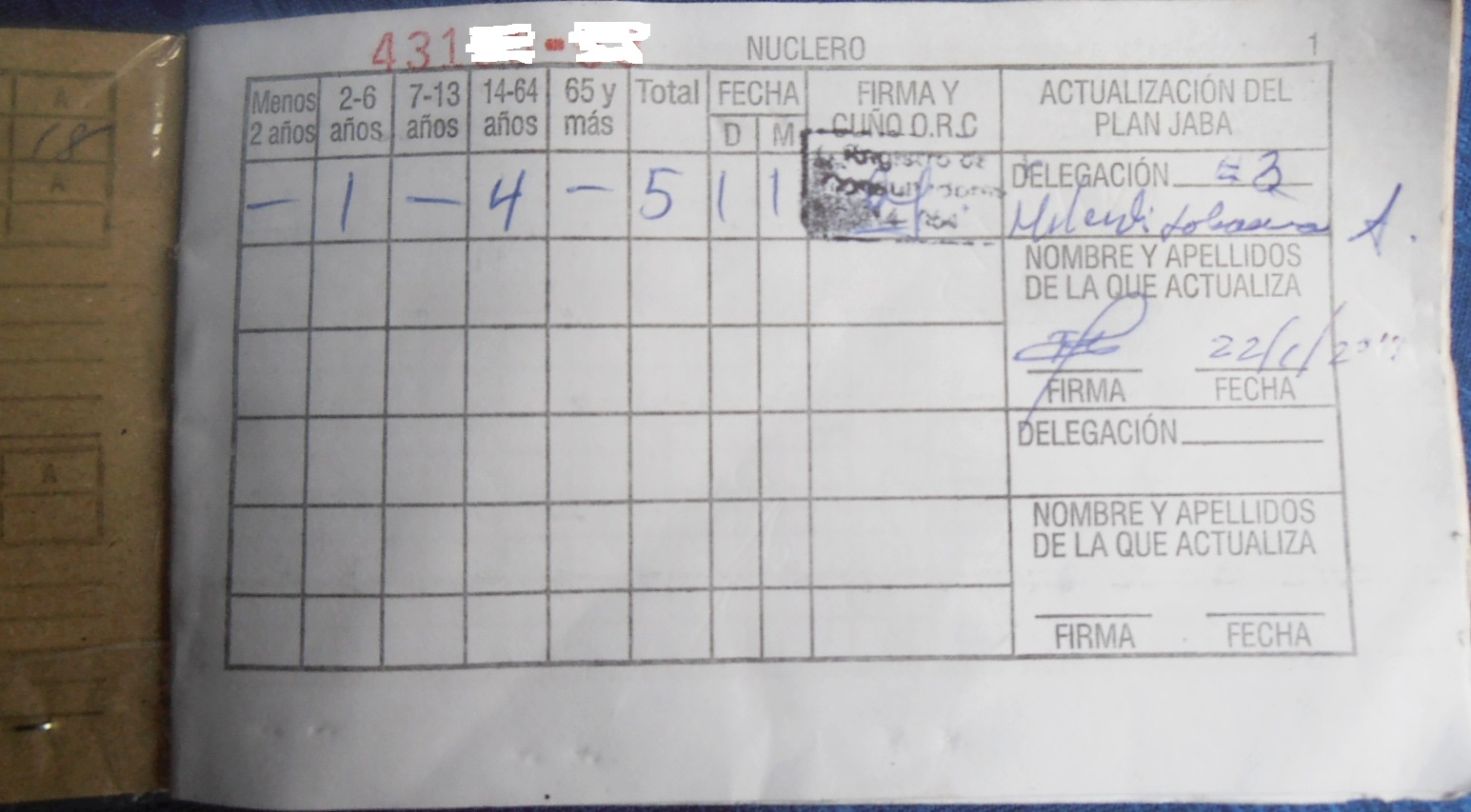 Nuclero of the Libreta de Abastecimiento; number and year anonymized.